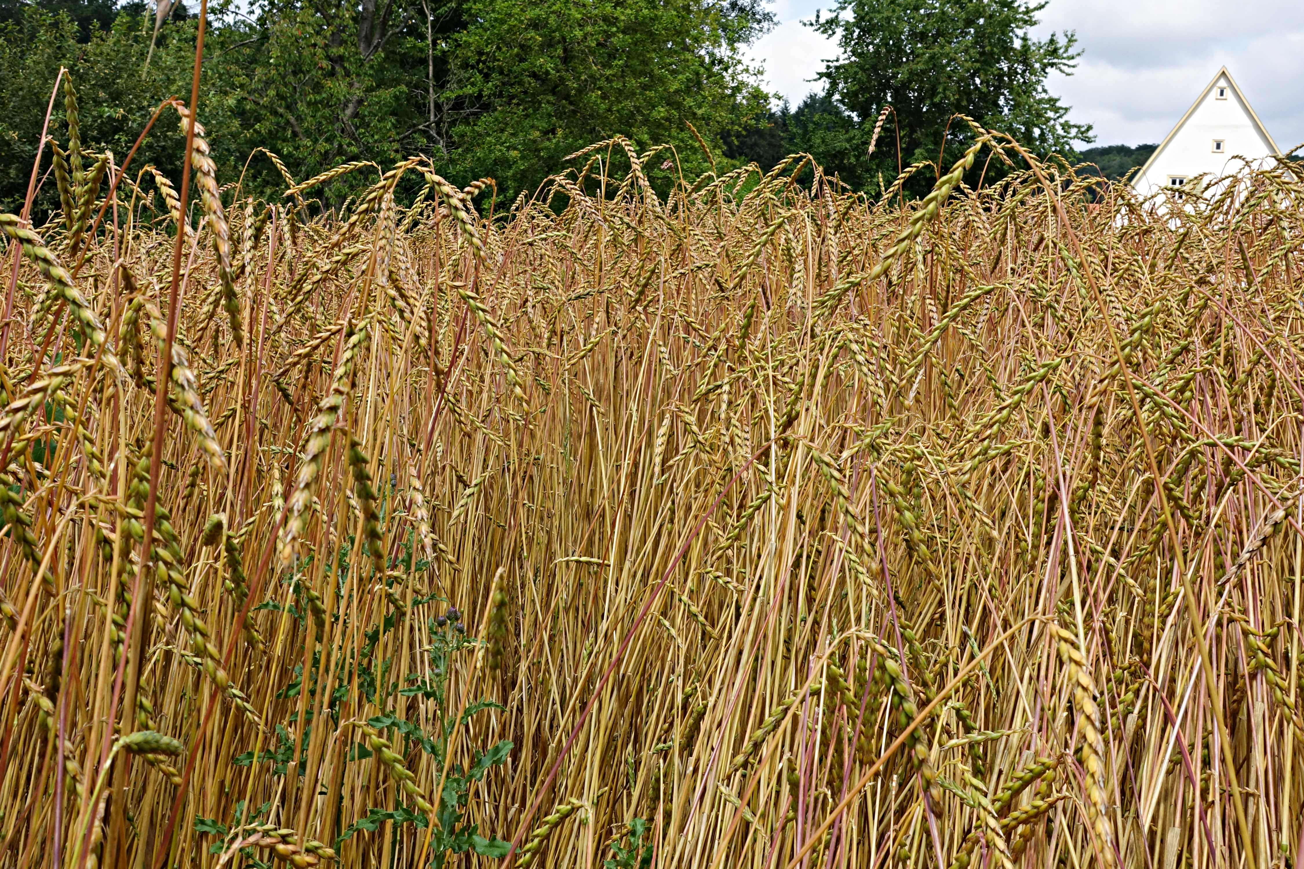 Spelt ready for harvesting for Grünkern, picture taken at Open-air museum Gottersdorf, Germany